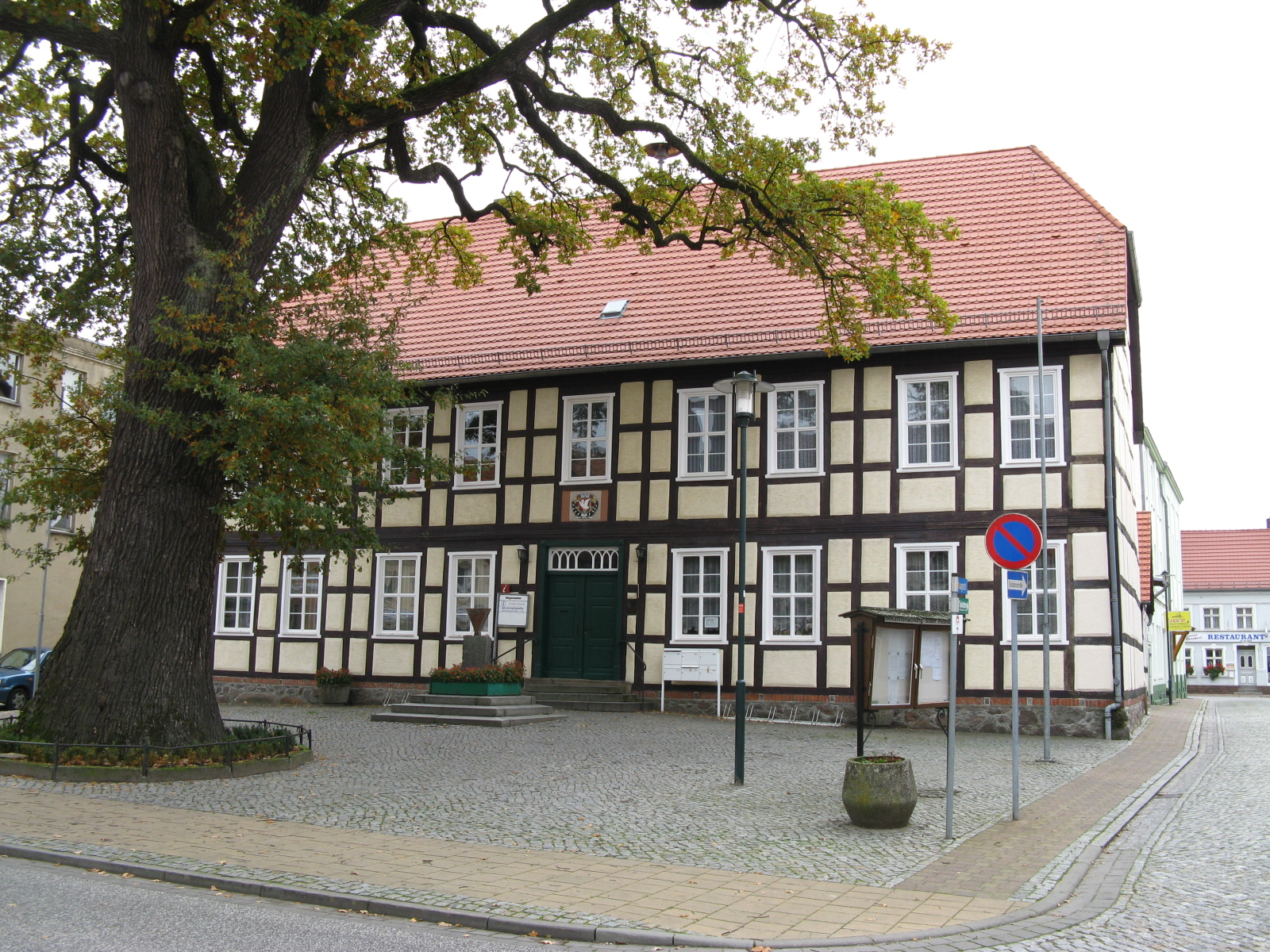 Town hall in Putlitz, Brandenburg, Germany